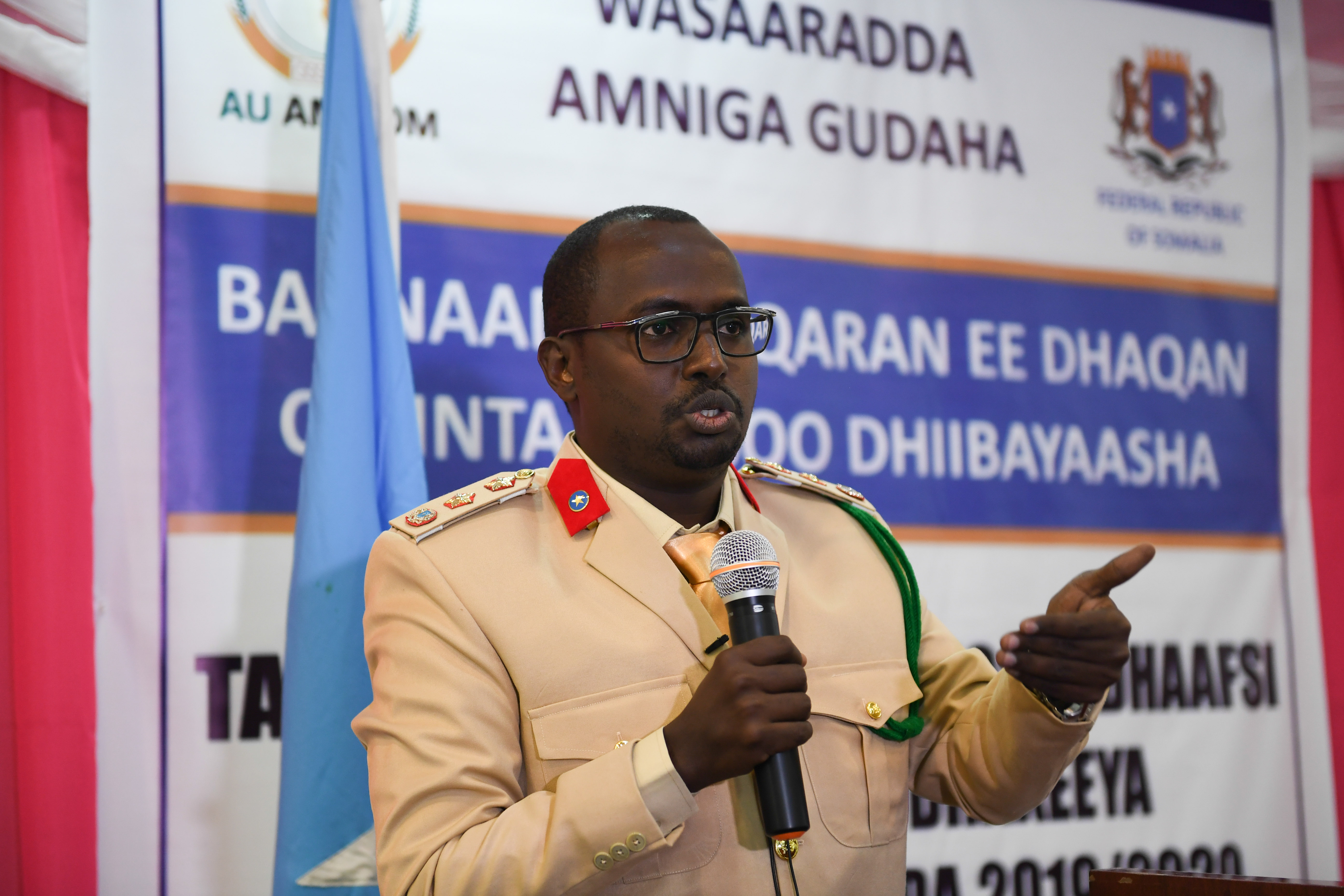 The Chief of the Somali Military Tribunal, Col. Hassan Ali Nur Shuute, speaks during a two-day defector rehabilitation program training for the Federal Government of Somalia relevant agencies in SYL Hotel in Mogadishu on 9 December 2019. AMISOM Photo / Abdikarim Mohamed